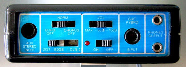 Mini-Amplifier Template:Rockman (amplifier)